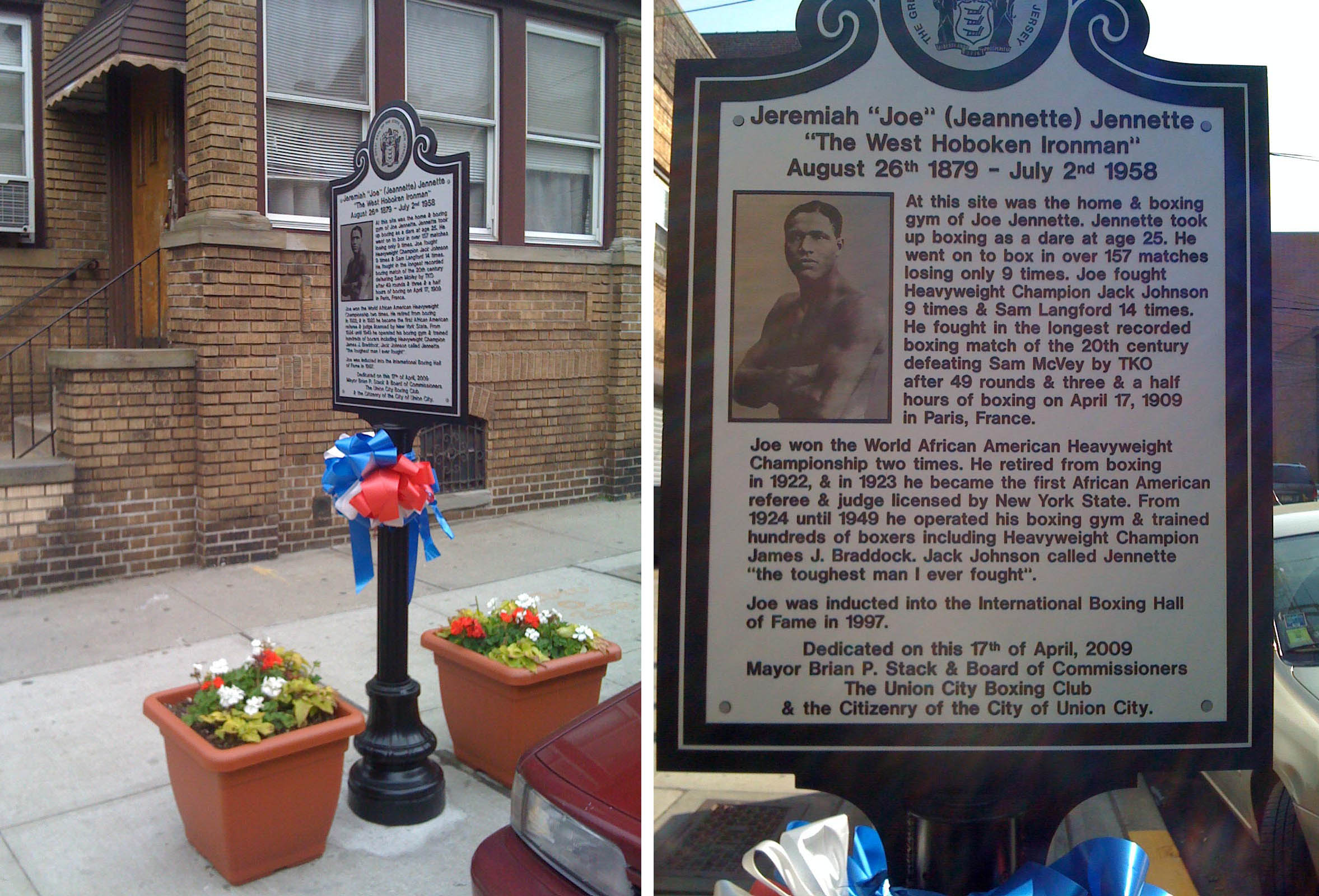 Historical marker on the northeast corner of Summit Avenue and 27th Street in Union City, New Jersey, in front of where the home and gym of boxer Joe Jeanette once stood. This photo was created by Luigi Novi. It is not in the public domain, and use of this file outside of the licensing terms is a copyright violation.